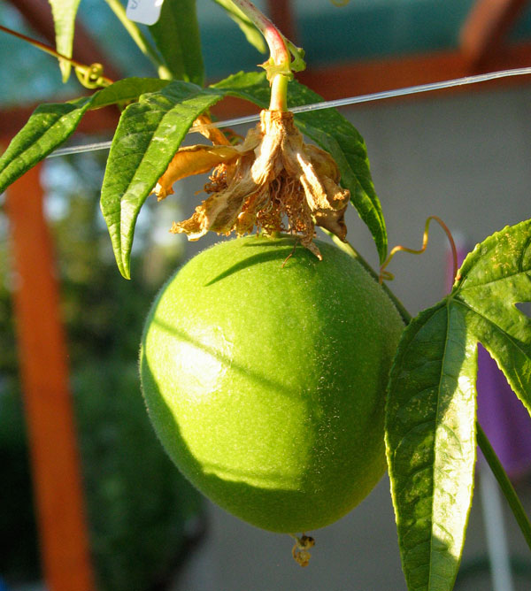 Fruit of Passiflora incarnata